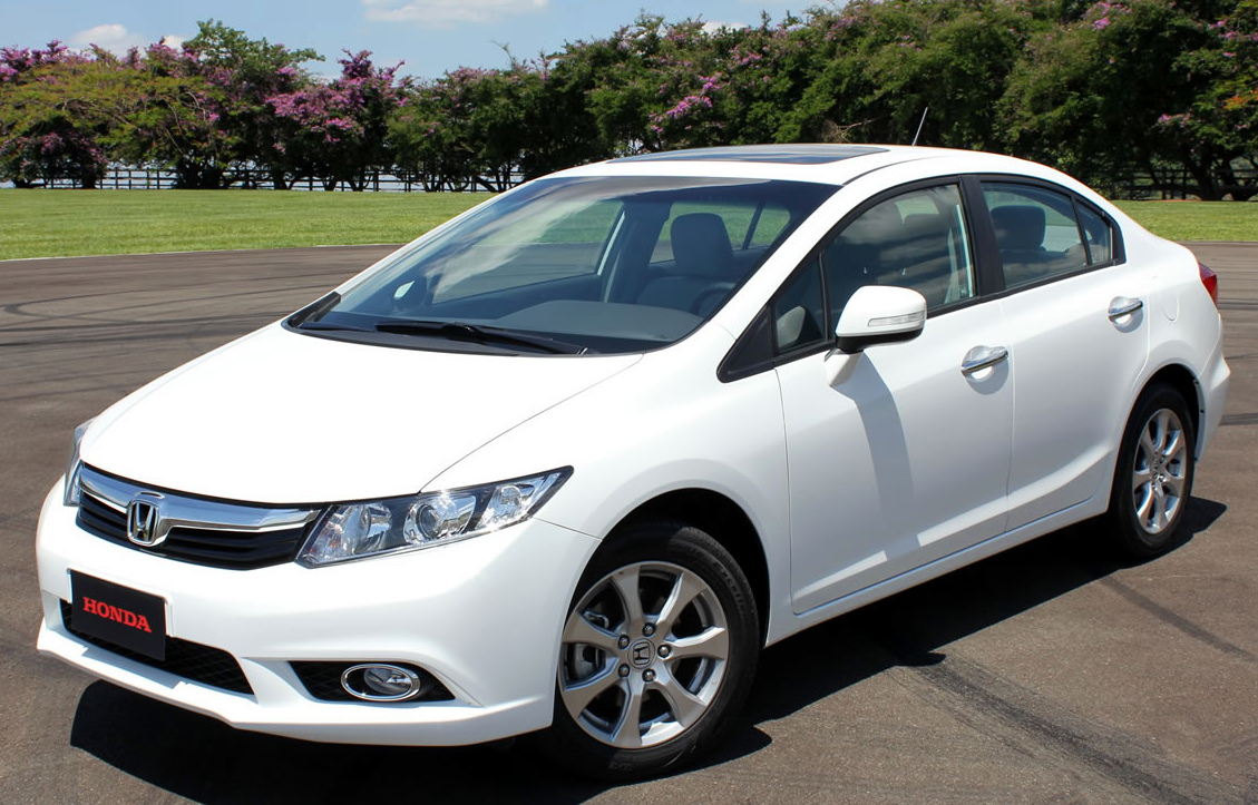 2012 All-New Honda Civic EXS